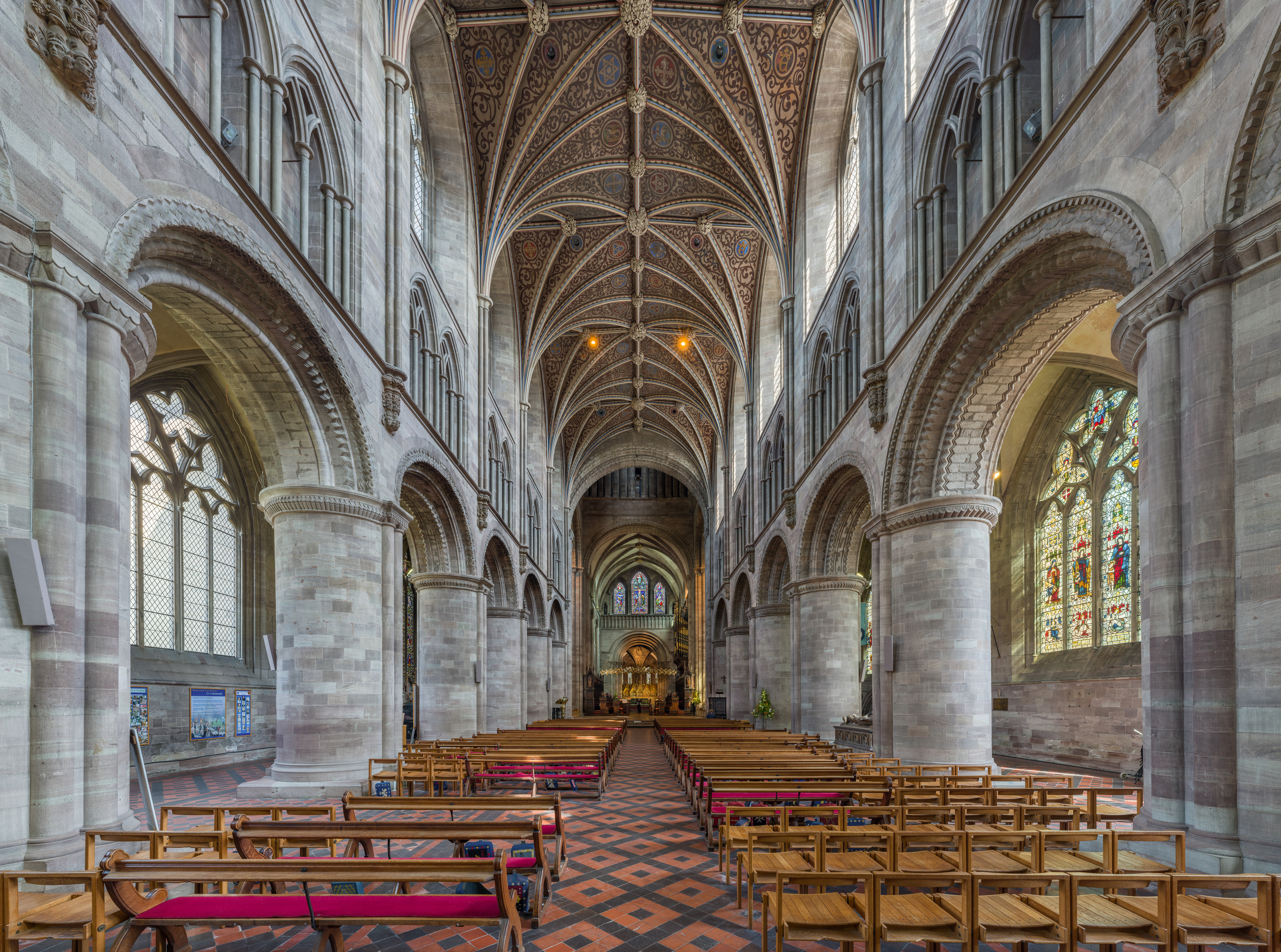 Hereford Cathedral's nave looking towards the choir, viewed from the west.